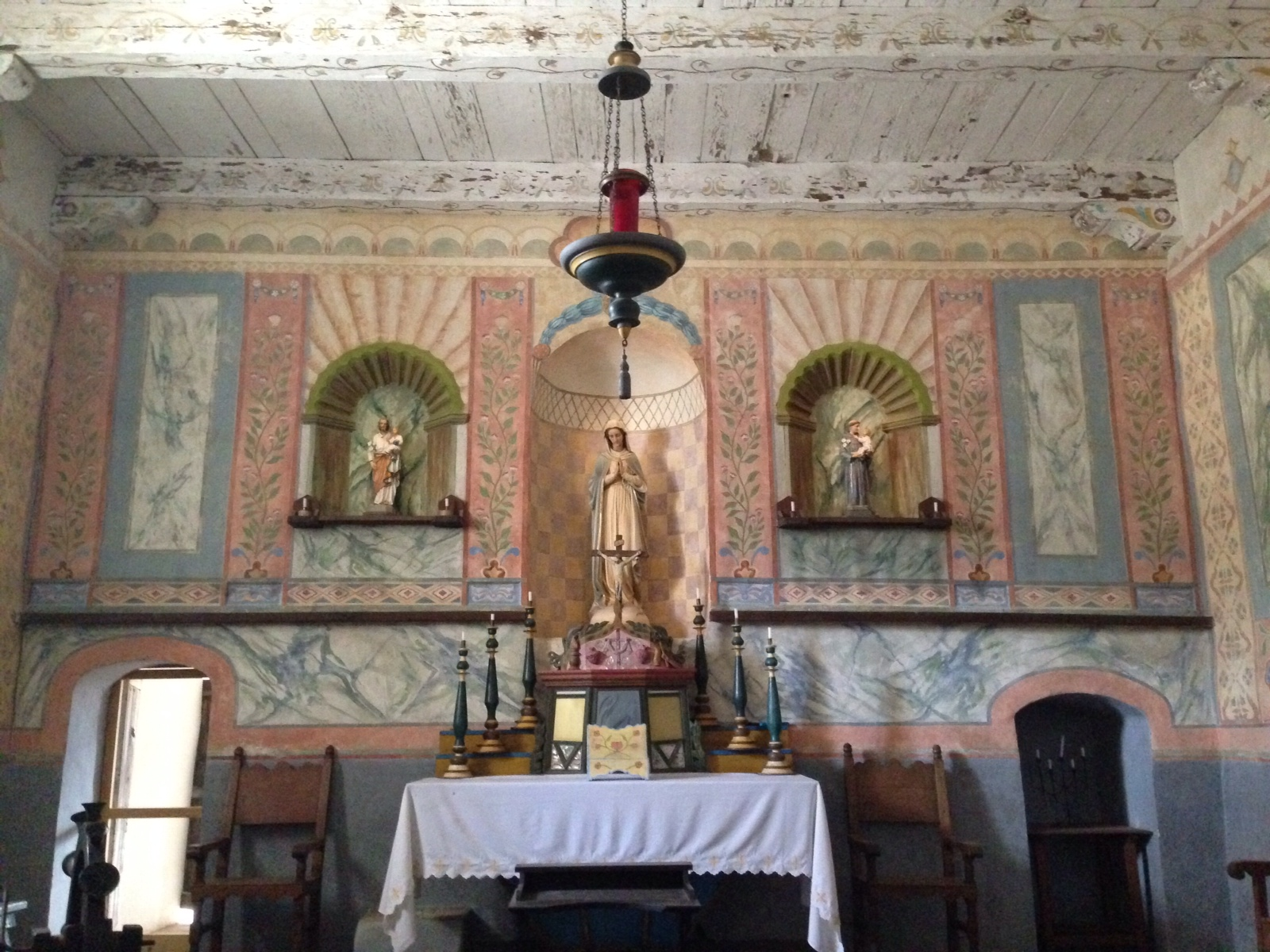 The altar inside La Purisima Mission in Lompoc, California.